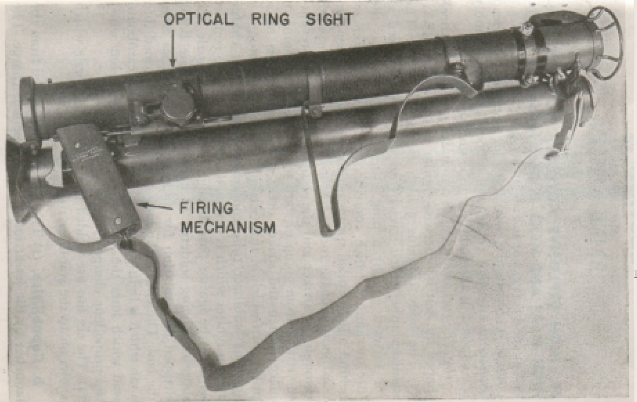 M9 Bazooka folded